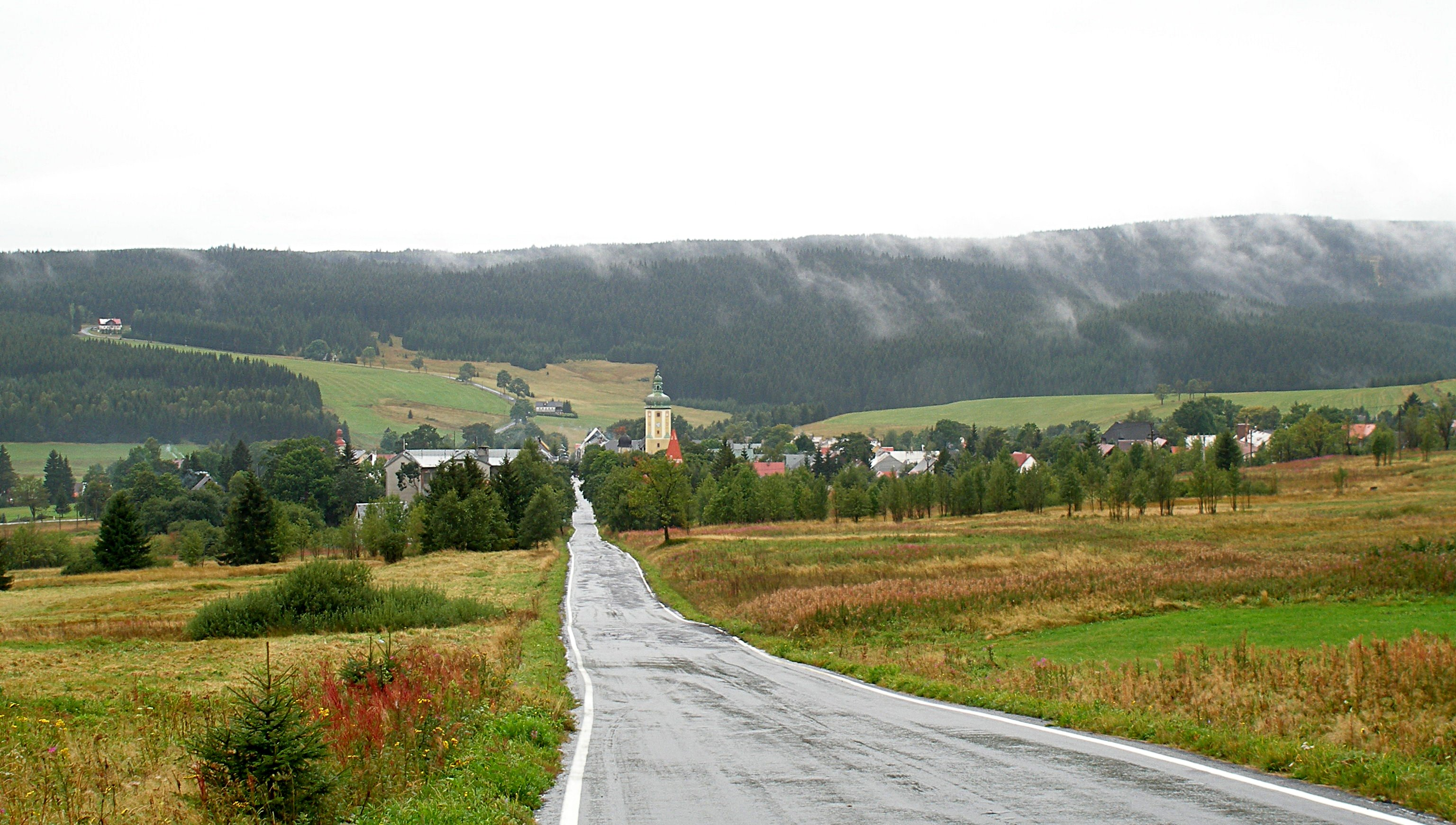 Horní Blatná (Bergstadt Platten)